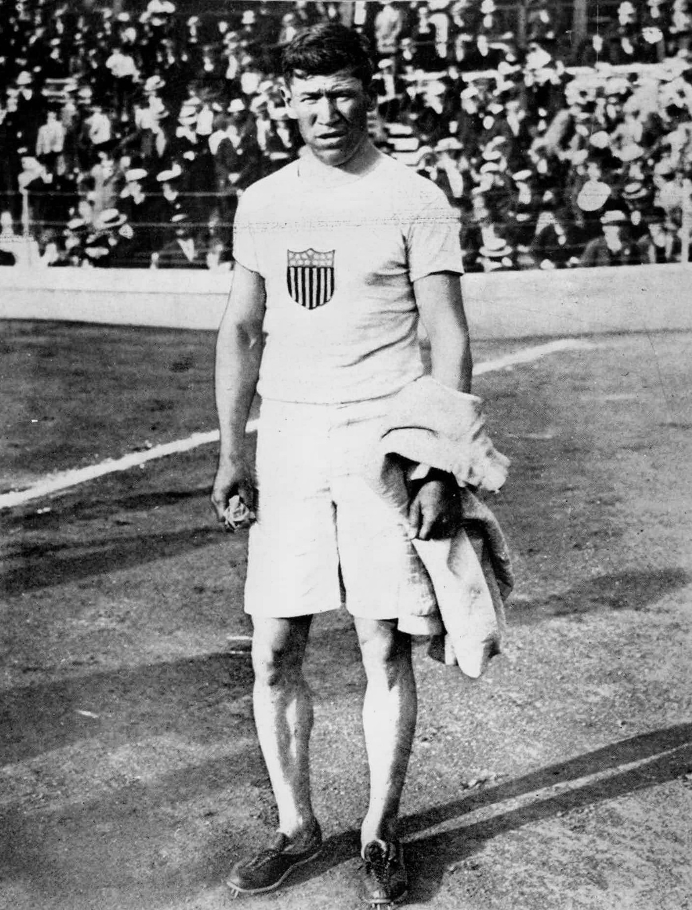 American Olympic athlete Jim Thorpe